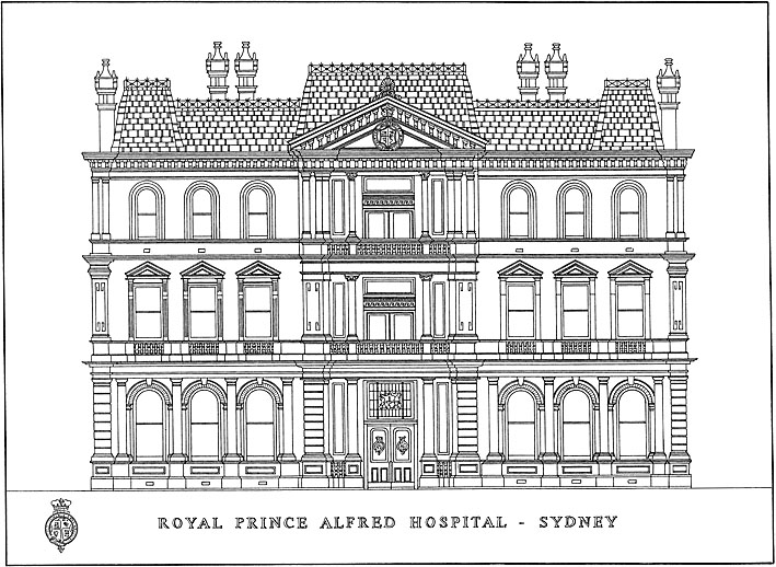 The Royal Prince Alfred Hospital of Sydney.